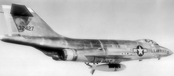 27th Fighter-Bomber Wing McDonnell F-101A with an Inert Training MK-7 Nuclear Bomb on its centerline during a training flight from Bergstrom Air Force Base Texas.